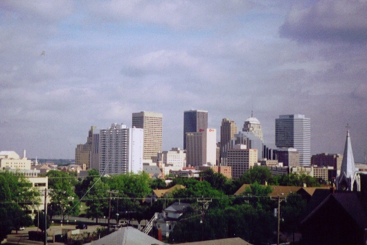 Downtown Oklahoma City from the northwest.